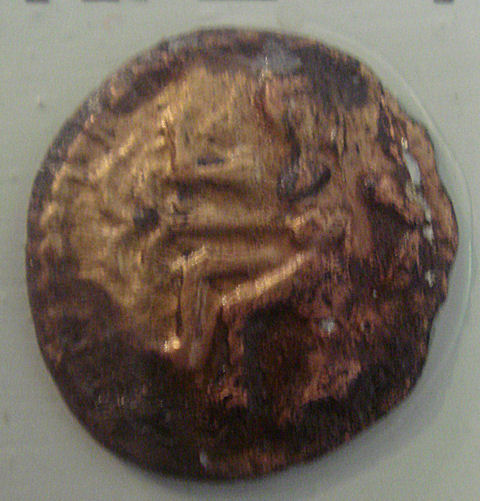 Vindelici_coinage 5th 1st century BCE.